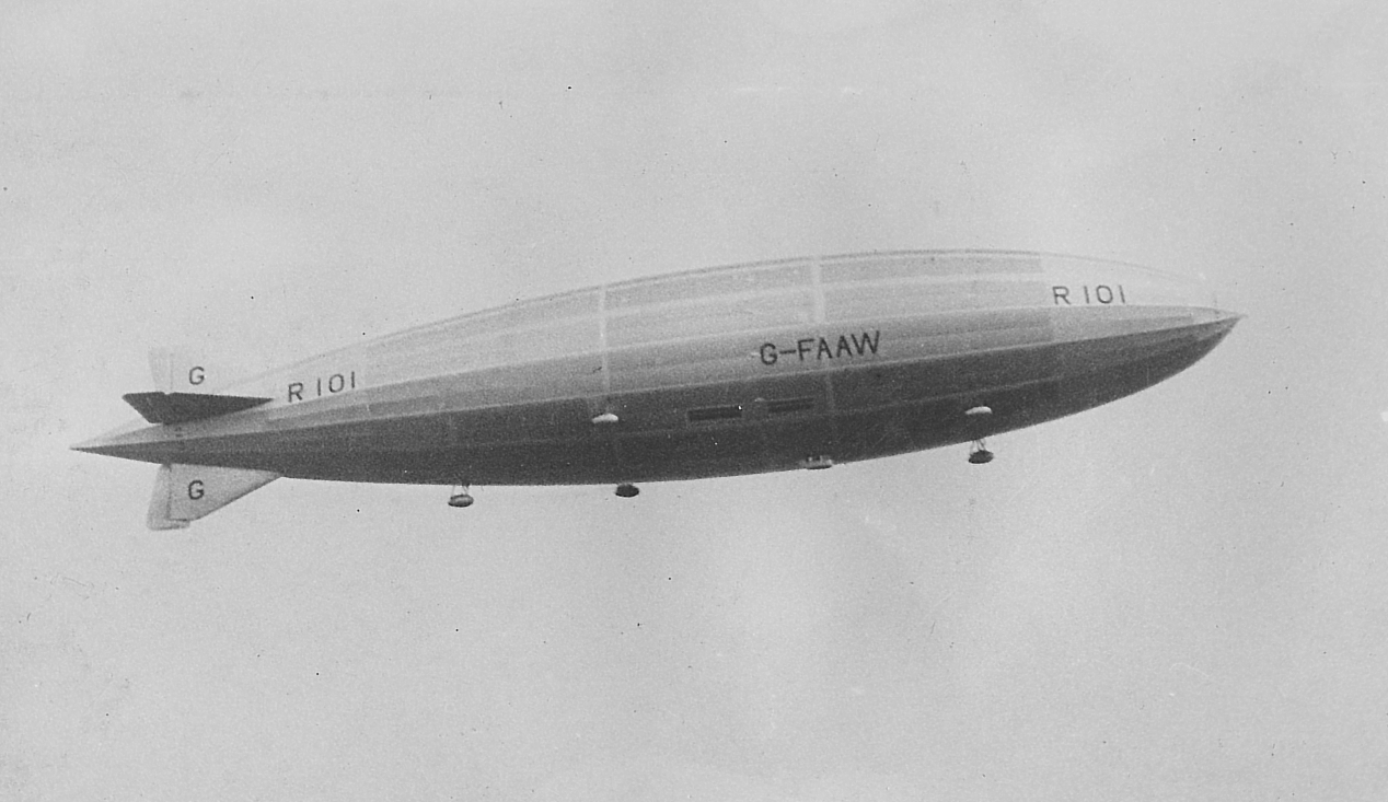 R101 airship in flight, circa 1929.